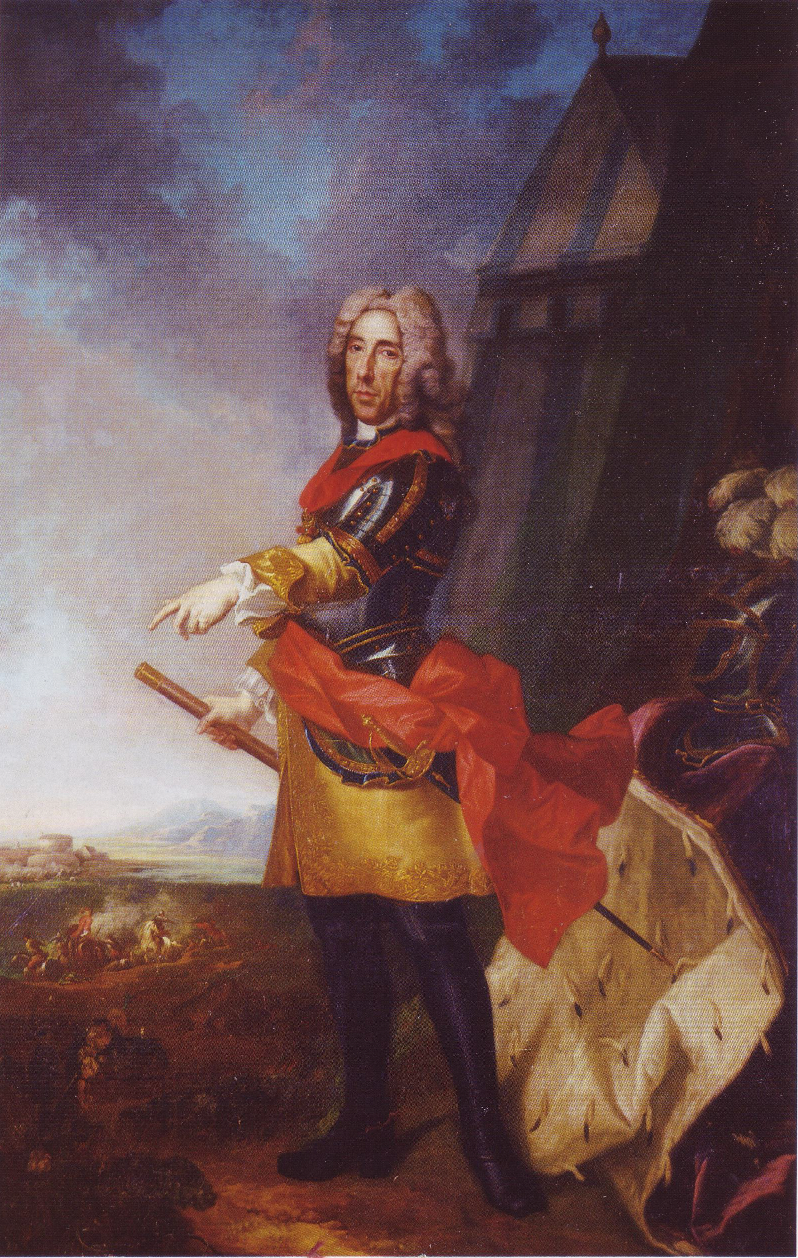 Portrait of Prince Eugene of Savoy' (1663-1736)